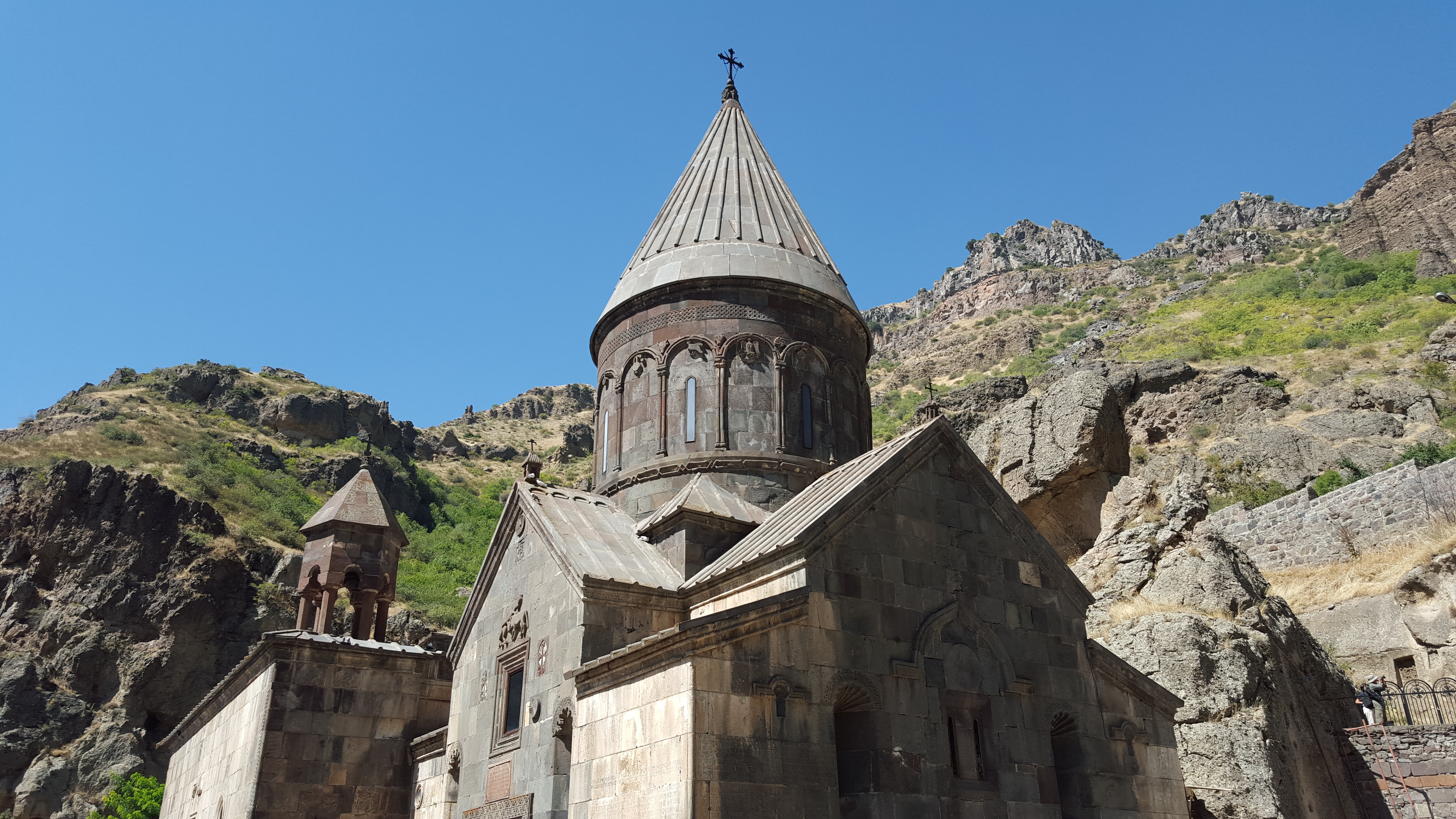 Geghard monastery